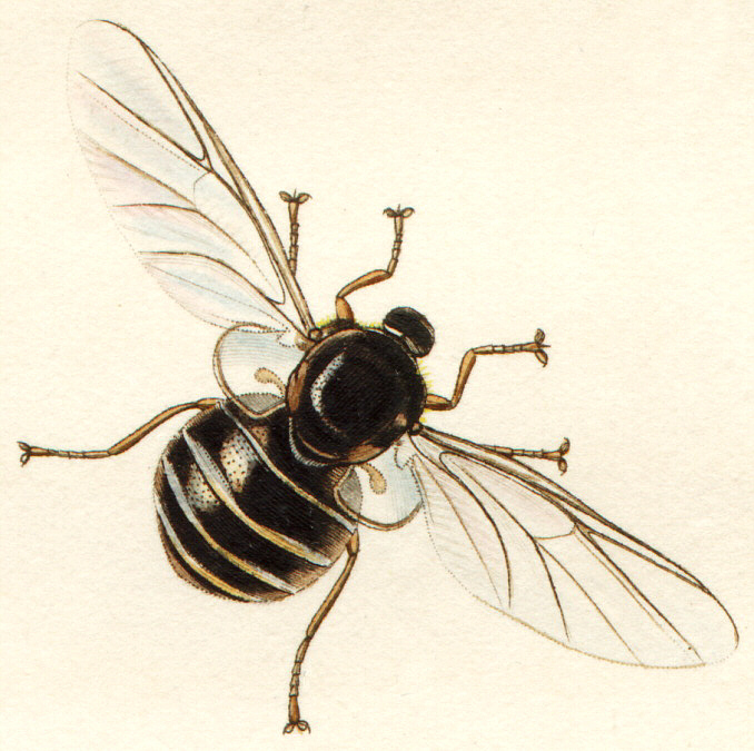 Detail of illustration from British Entomology: illustrations and descriptions of the genera of insects found in Great Britain and Ireland (1824–1840)